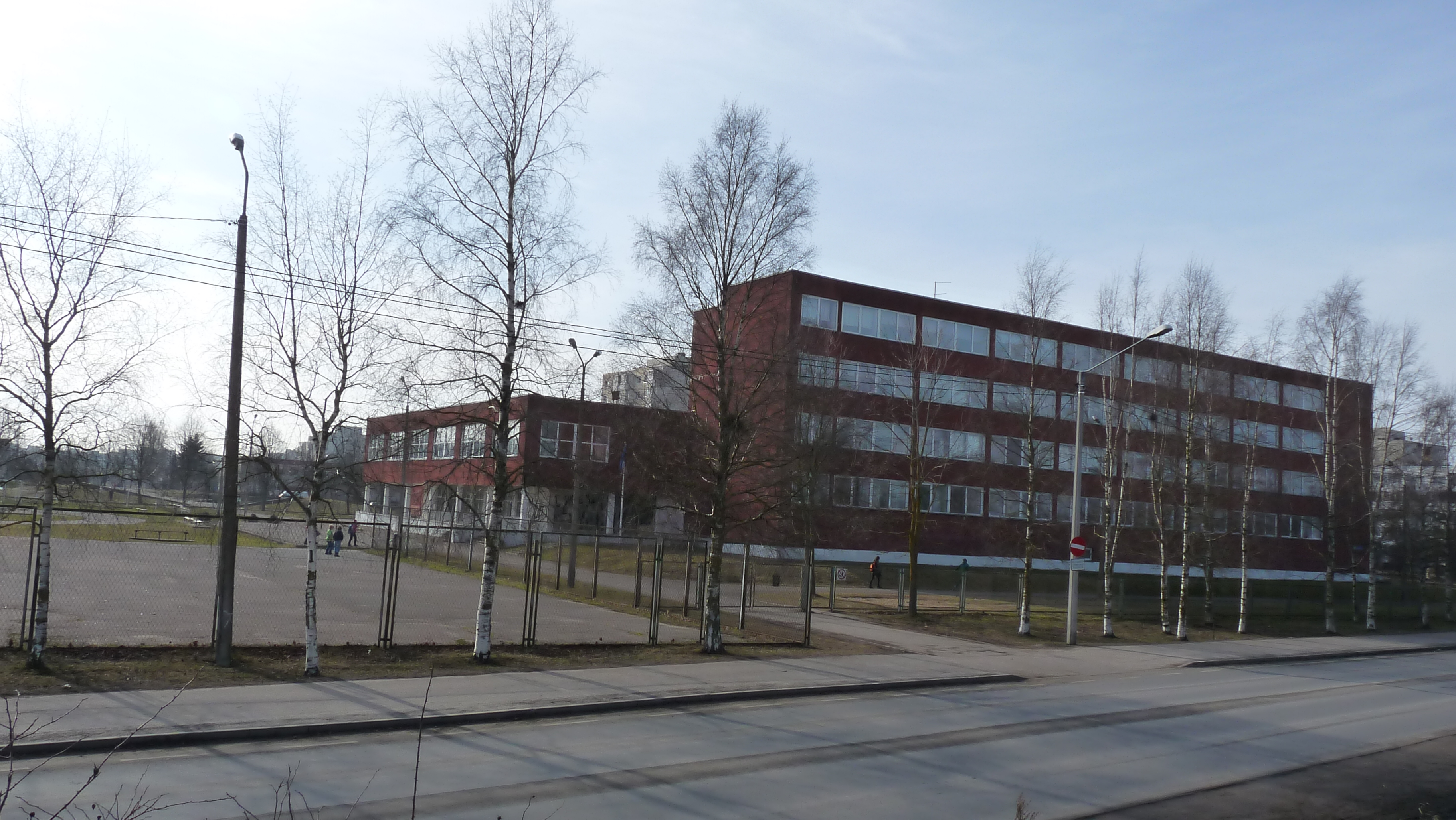 Lasnamäe common gümnaasium in Tallinn, Estonia